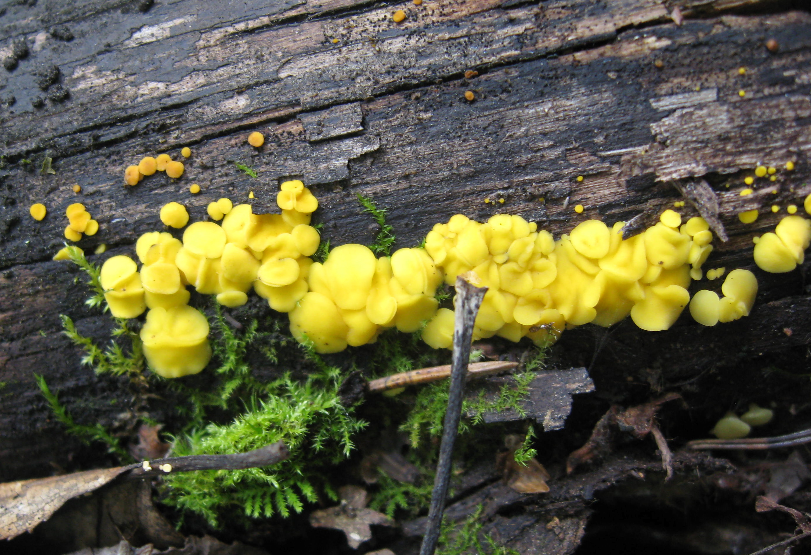 Bisporella citrina growing on a rotten log. Found in La Ronge, Saskatchewan, Canada